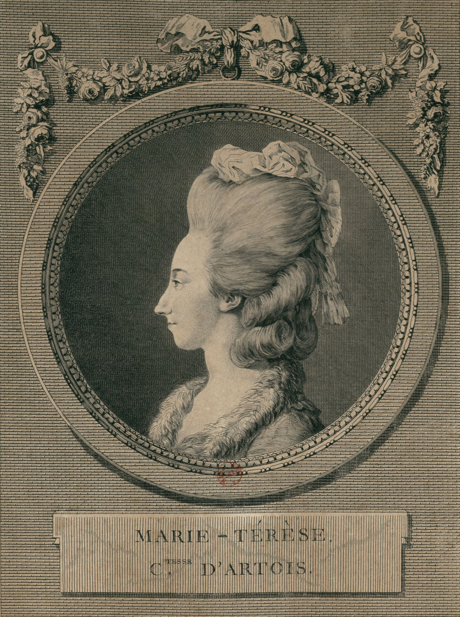 Portrait of Maria Theresa of Savoy ((1756-1805))